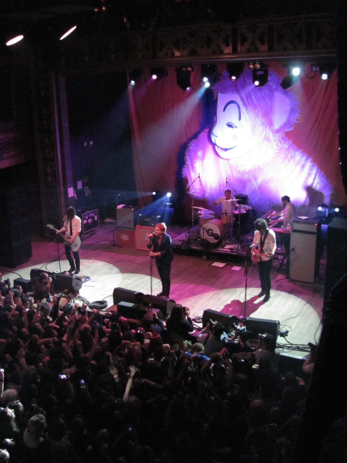 Gerard Way and his support band, The Hormones, performing at the Webster Hall in New York, United States, on October 23rd, 2014.